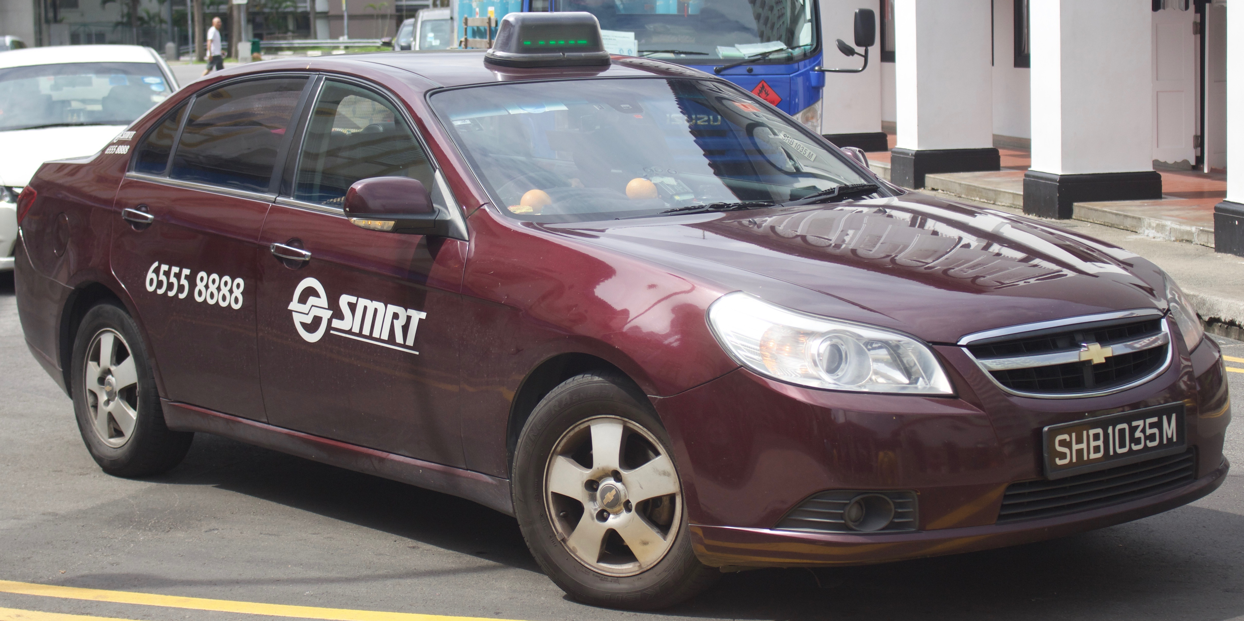 2010 Chevrolet Epica (V250) LT sedan, SMRT taxis. Photographed in Singapore.